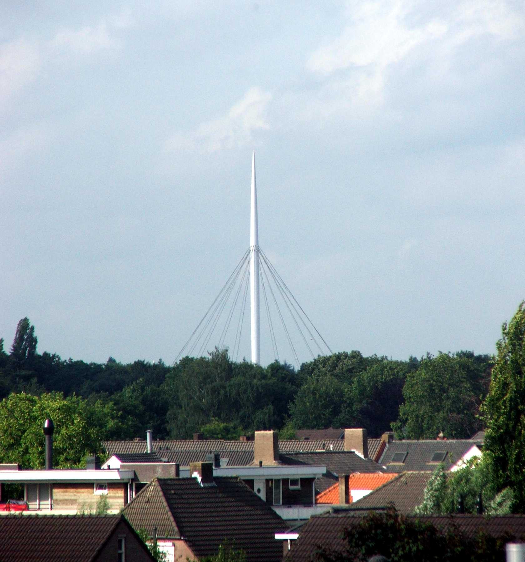 Hovenring: Elevated cyclists' roundabout between Eindhoven and Veldhoven (Netherlands). Photo taken from 4th floor in Veldhoven-Centrum (1,6 km).